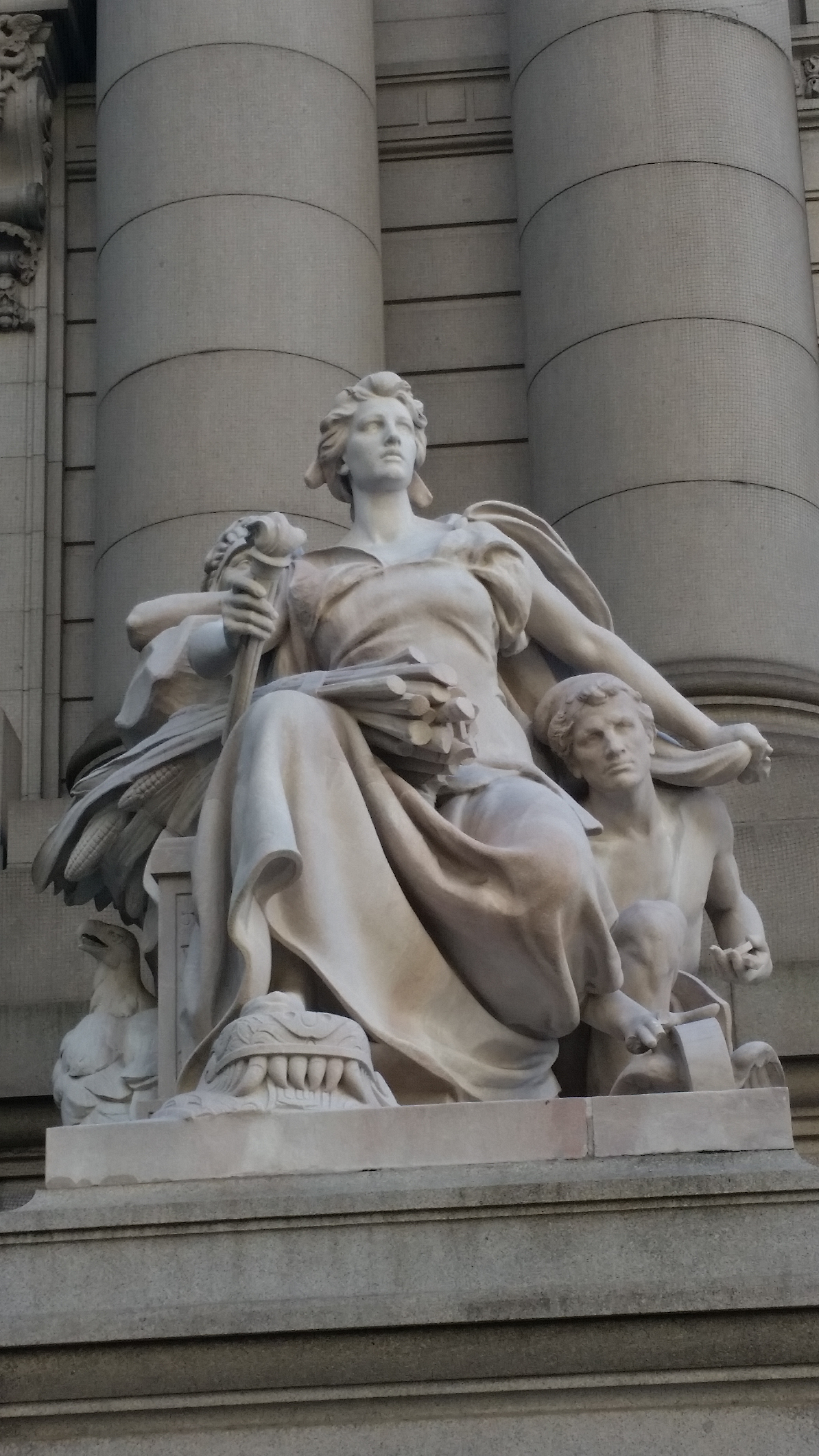 America (1903-1907) The Four Continents, Alexander Hamilton Custom House, Bowling Green, New York City